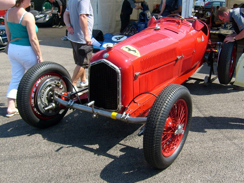 Alfa Romeo P3 Silverstone Classic 2008